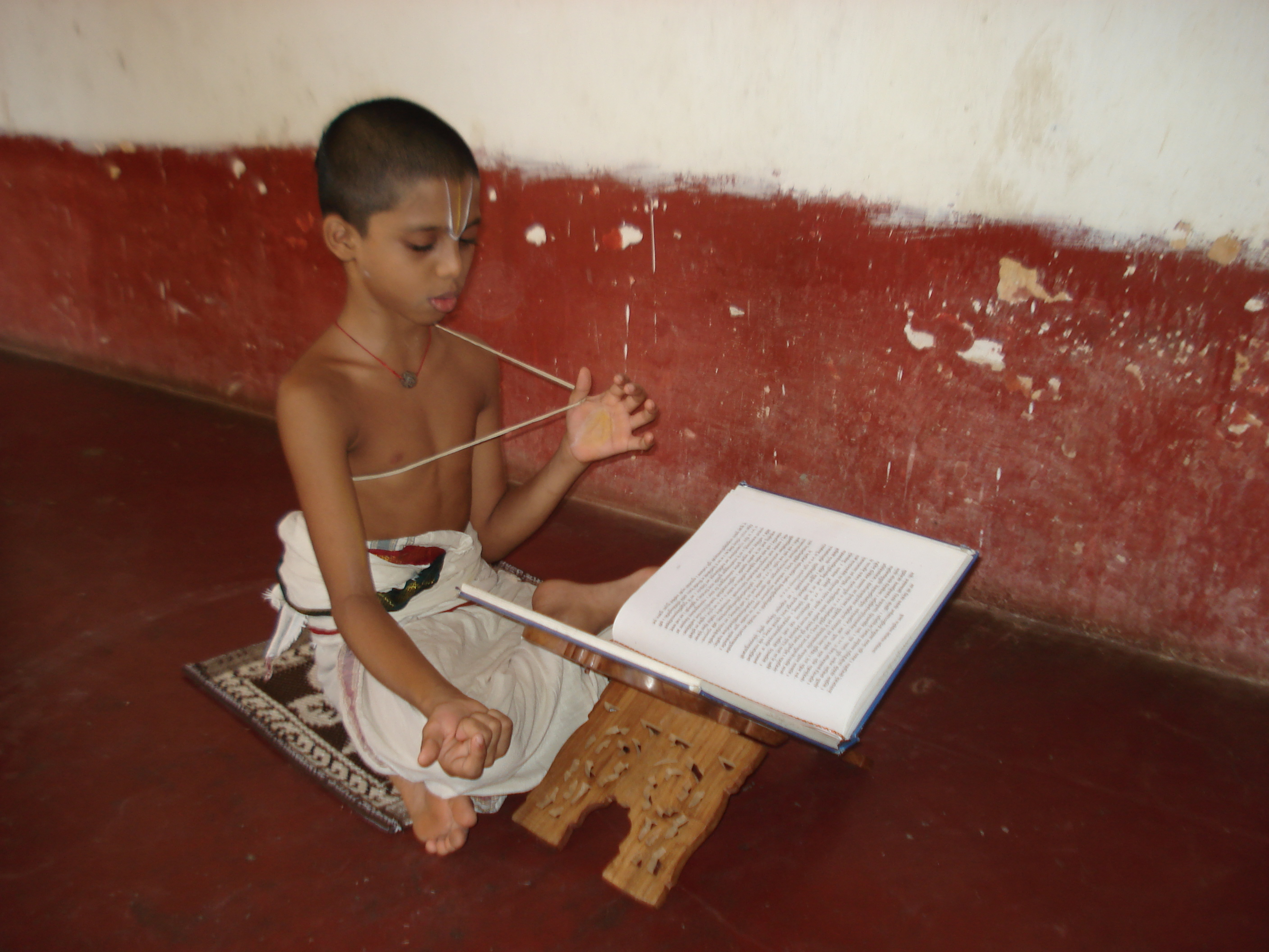 Student learning Veda. Location: Nachiyar Kovil, Kumbakonam, Tamilnadu.